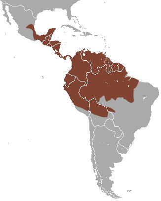 Common Opossum, or Black-eared Opossum (Didelphis marsupialis) range